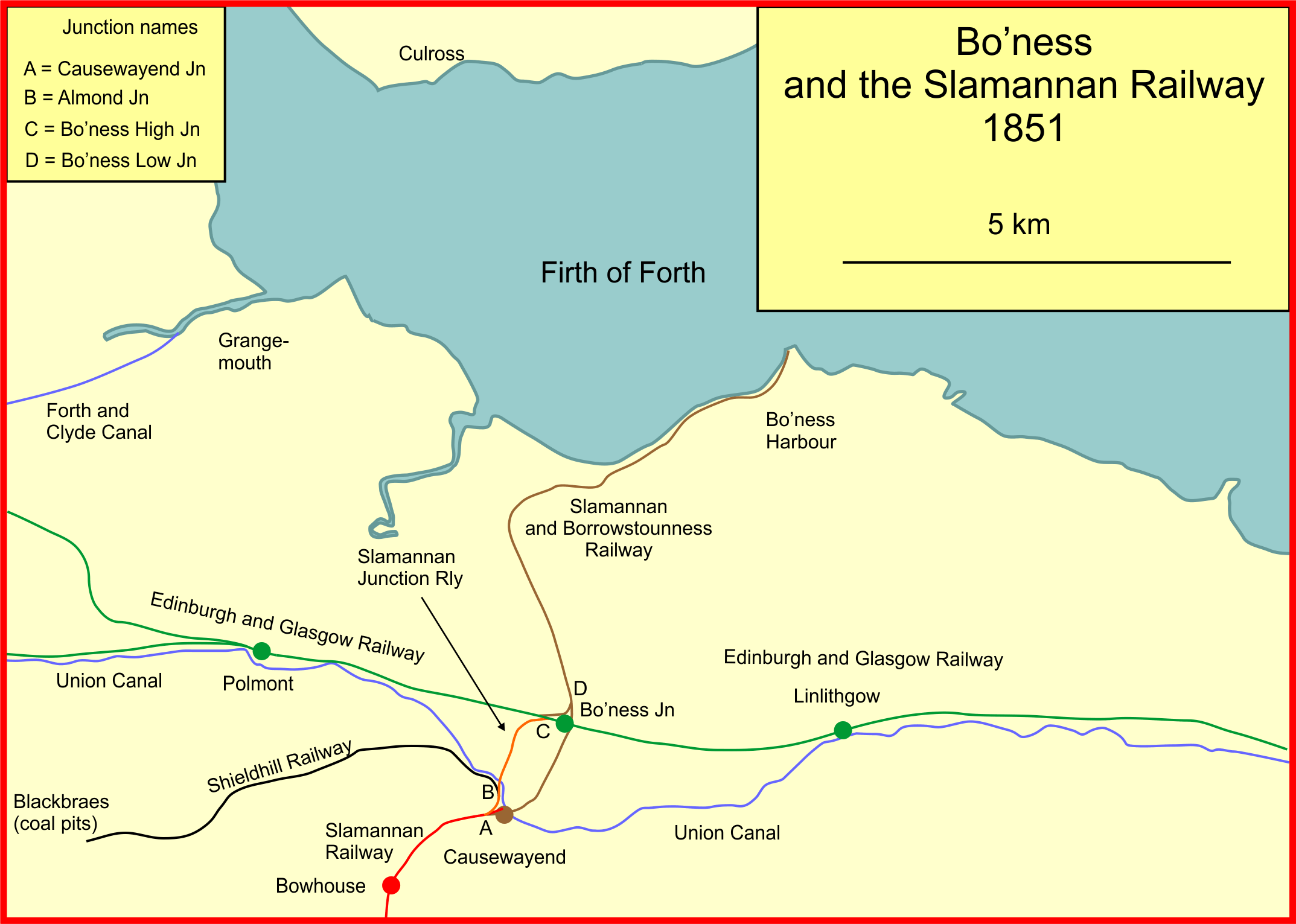 Railway branches around Bo'ness, Scotland